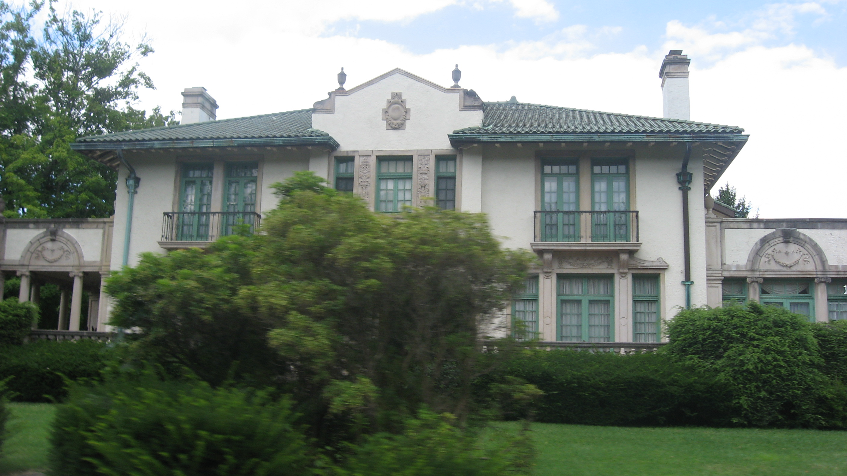 Front of the E. A. Durham House, located at 110 Chelsea Street (West Virginia Route 2) in Sistersville, West Virginia, United States. Built in 1921, it is listed on the National Register of Historic Places.